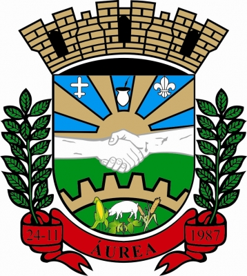 Coat of arms of the brazilian city of Áurea in the state Rio Grande do Sul